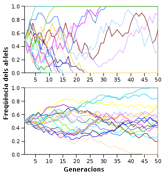 Simulation of genetic drift of 20 unlinked alleles in populations of 10 (top) and 100 (bottom). Drift to fixation is more rapid in the smaller population. Tags in Catalan